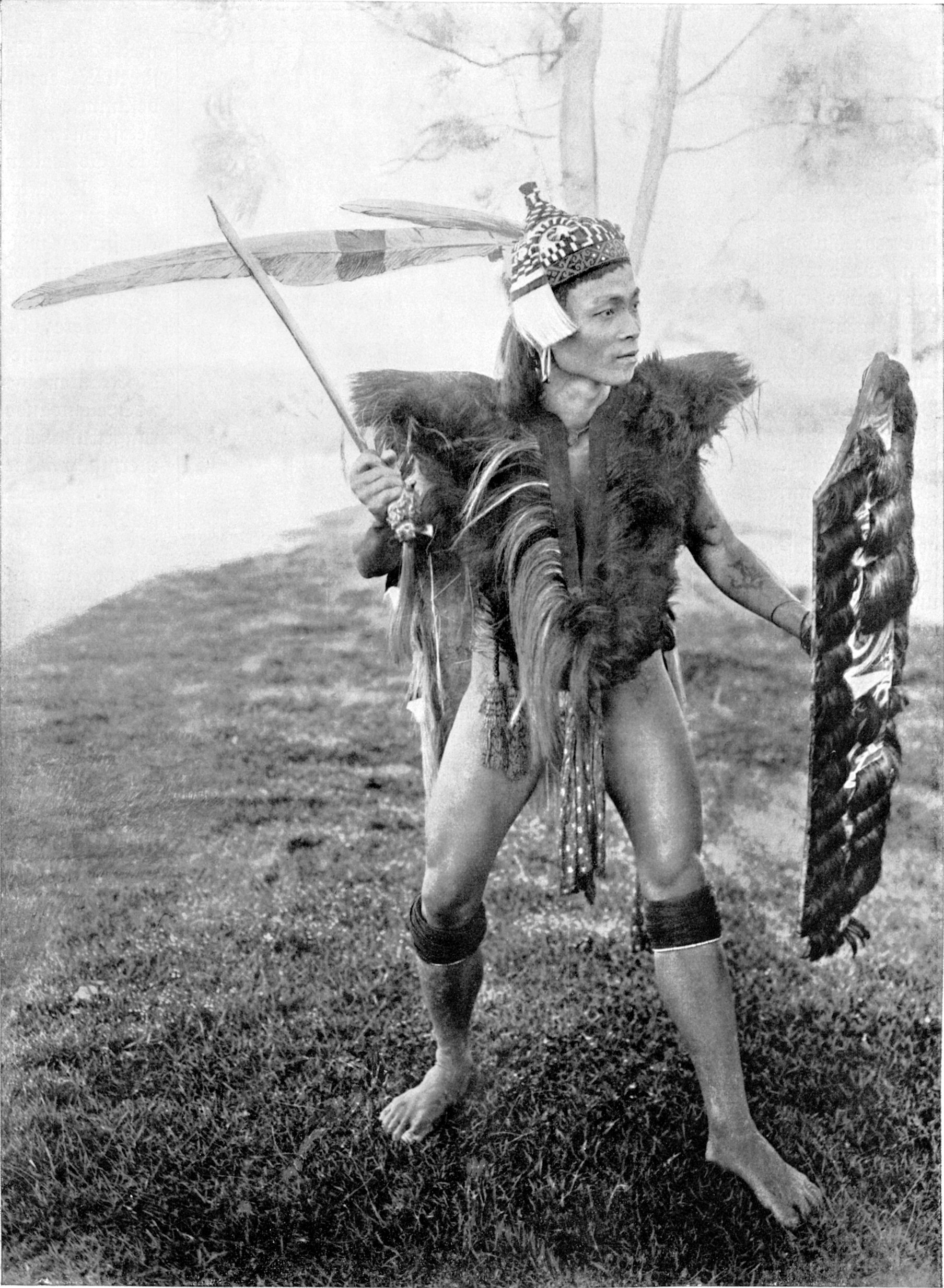 Dayak warriors of Baram distritt.The clothing consists of goat skin, and his shield is adorned with looted human hair, in the hand he holds the national sword, Kris.